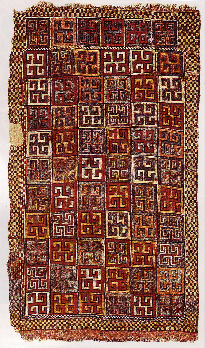 Sarre Rug, 1908, Swastikas H.82-73. Asia Minor Carpet with Unusual Form of the Swastika, Resently Acquired by the Kaizer-Friedrich Museum, Berlin